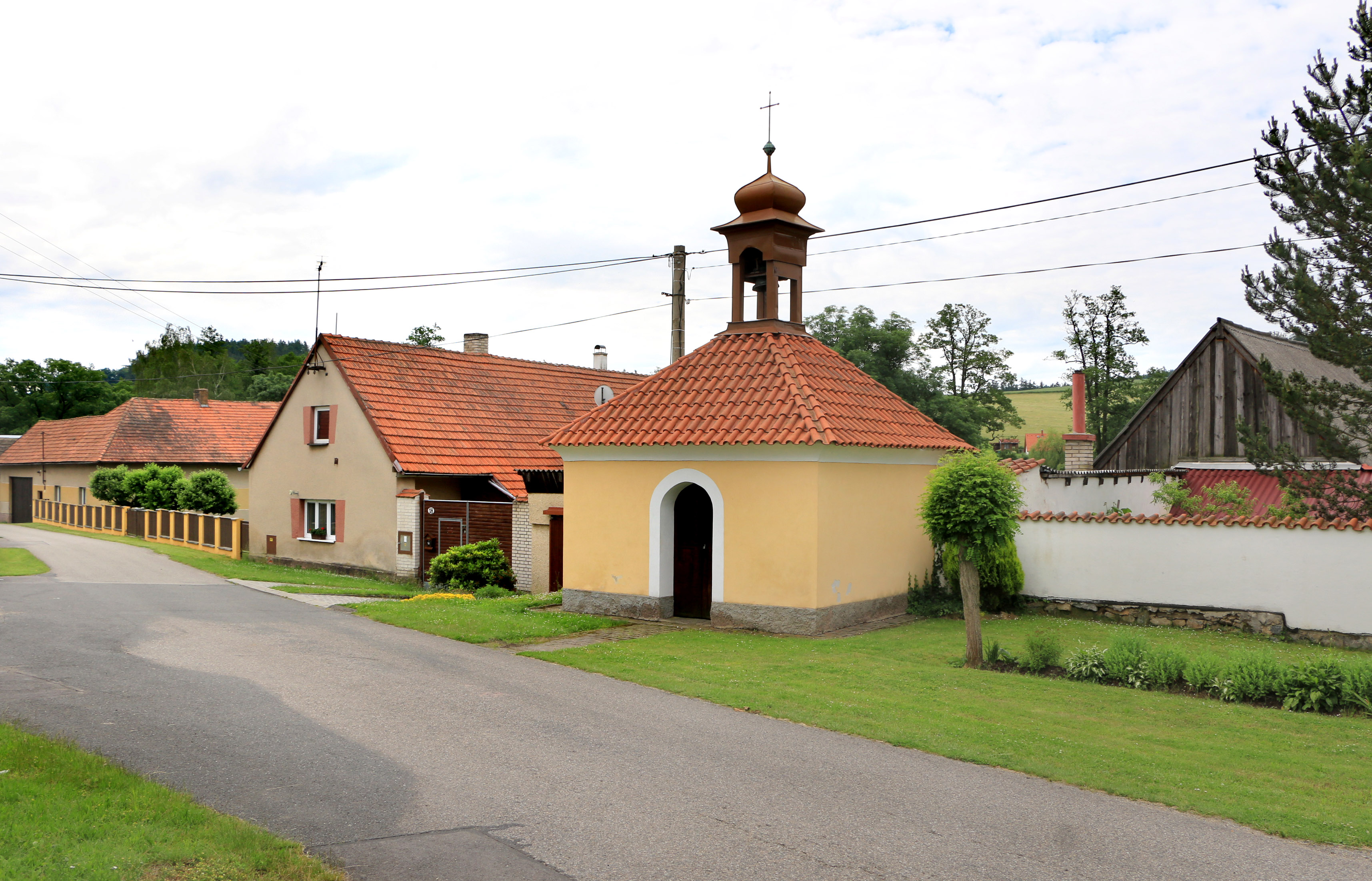 Chapel at the common of Odlochovice, part of Jankov, Czech Republic.